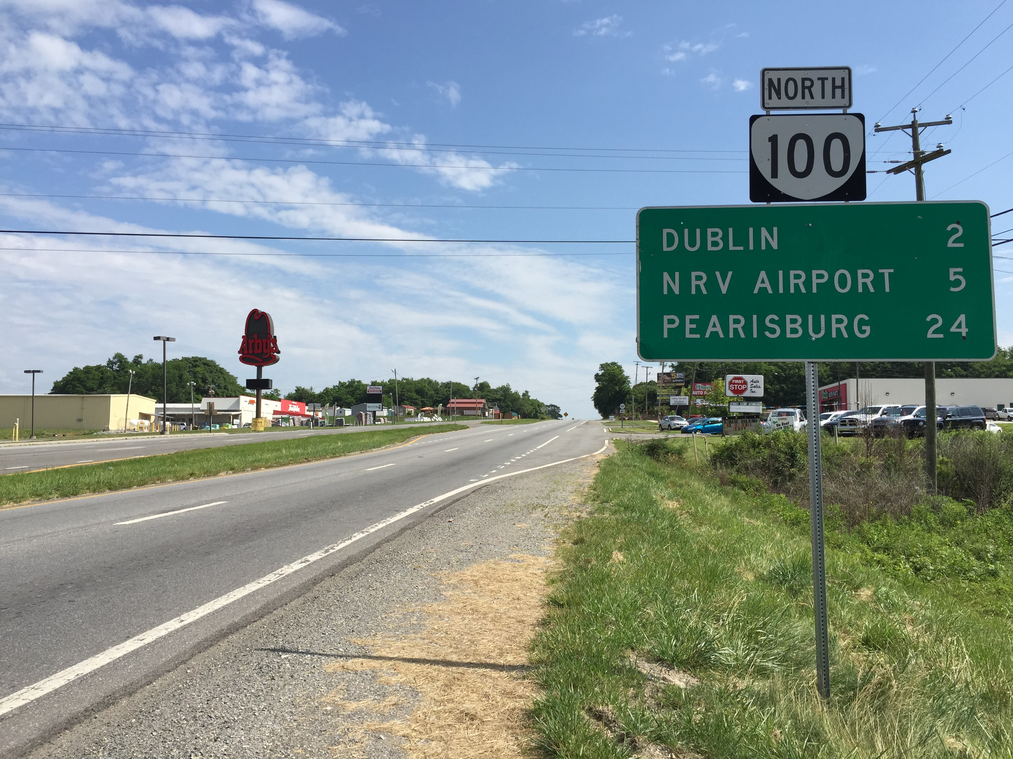 View north along Virginia State Route 100 (Cleburne Boulevard) at Charles Drive in Burlington Mills, Pulaski County, Virginia